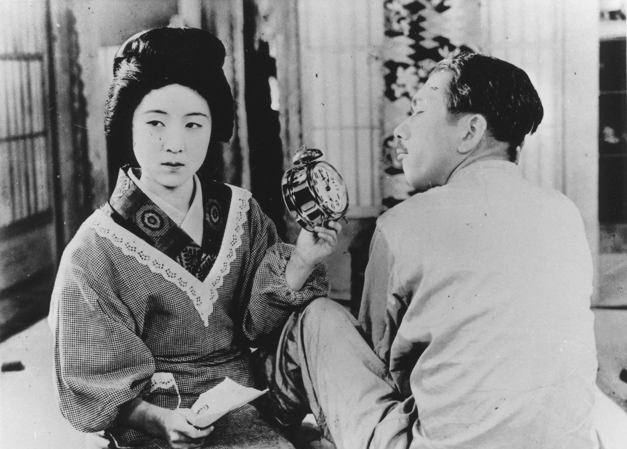 Kinuyo Tanaka and Atsushi Watanabe in The Neighbor's Wife and Mine (1931)